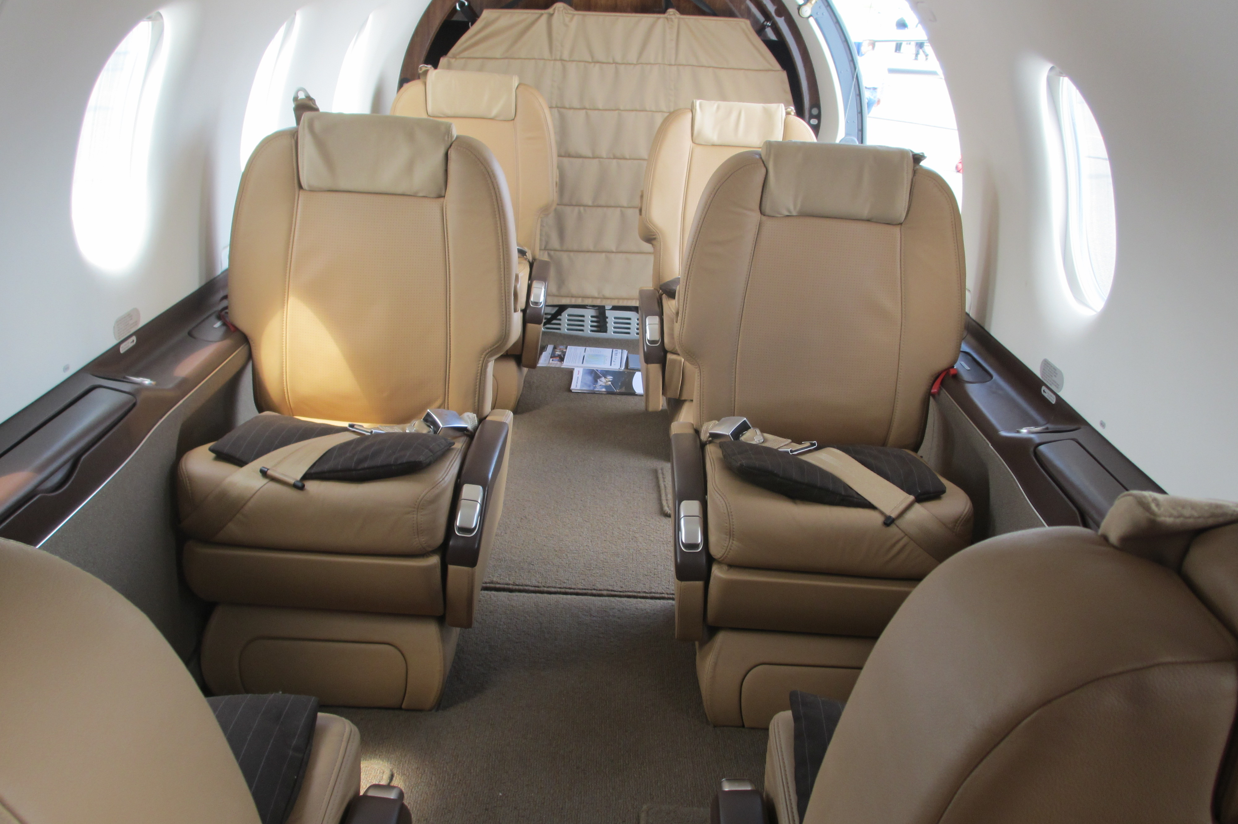 Pilatus PC-12 interior cabin